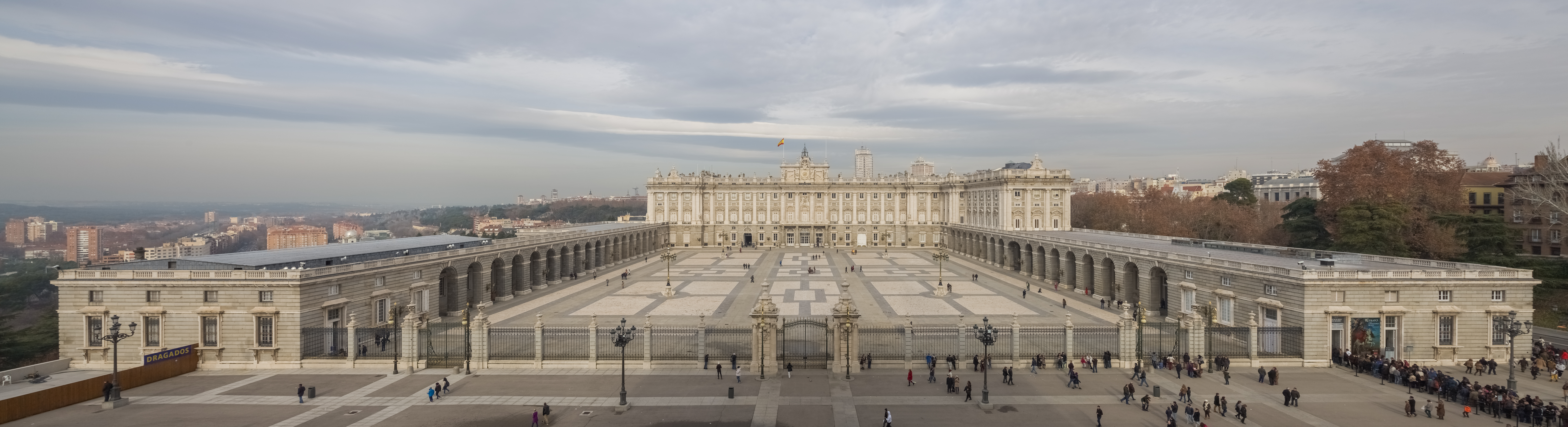 Royal Palace, Madrid, Spain